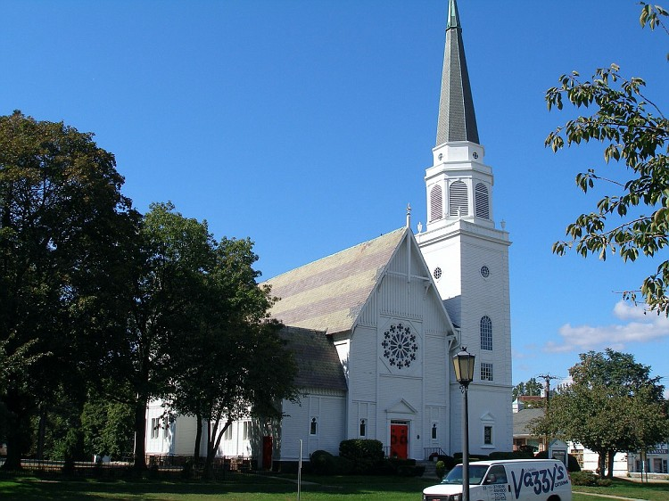 First Congregational Church, Stratford, Connecticut. Part of the Stratford Center Historic District.